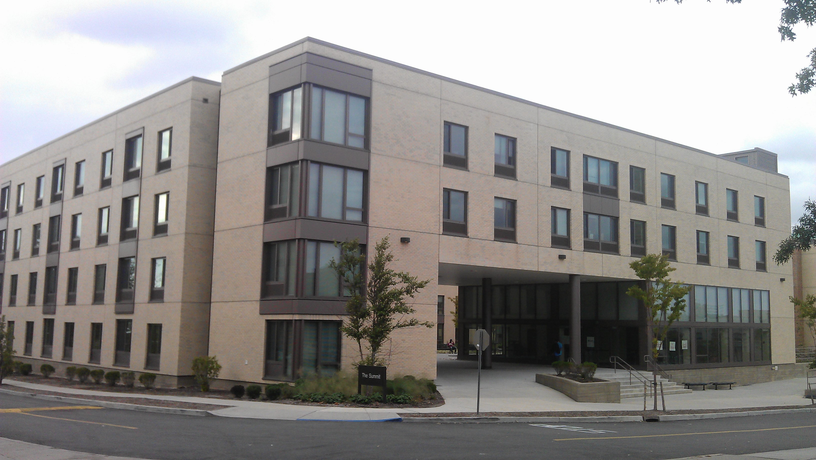 picture of queens college's residence hall